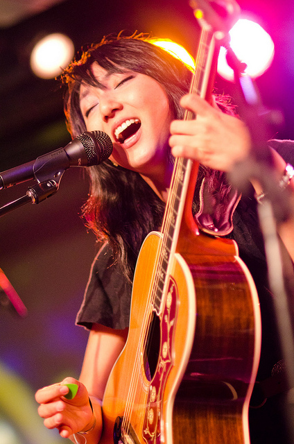 Clara Chung performs at the Loft at UC San Diego.